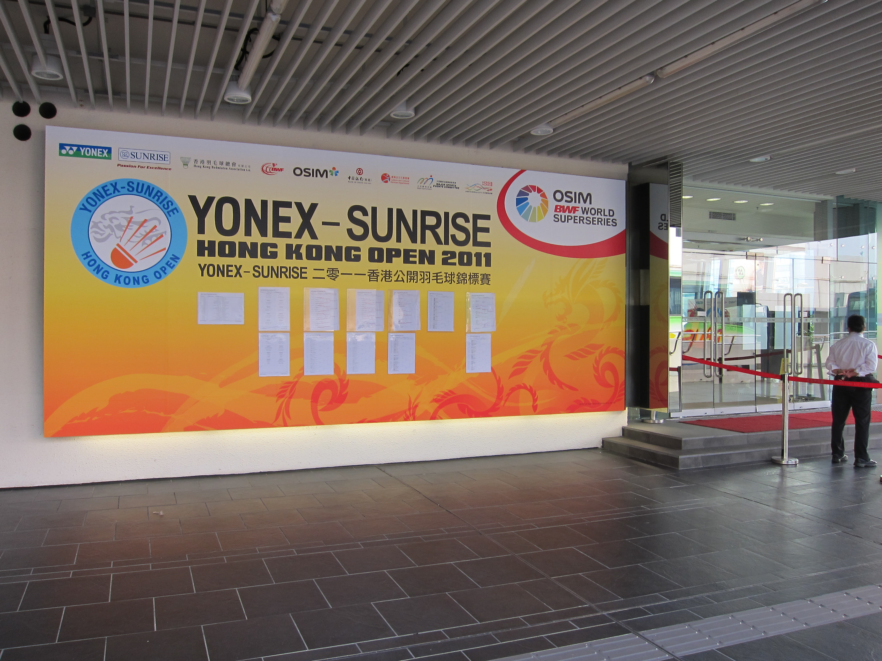 The Venue of Hong Kong Open Badminton Championships 2011 - Hong Kong Coliseum